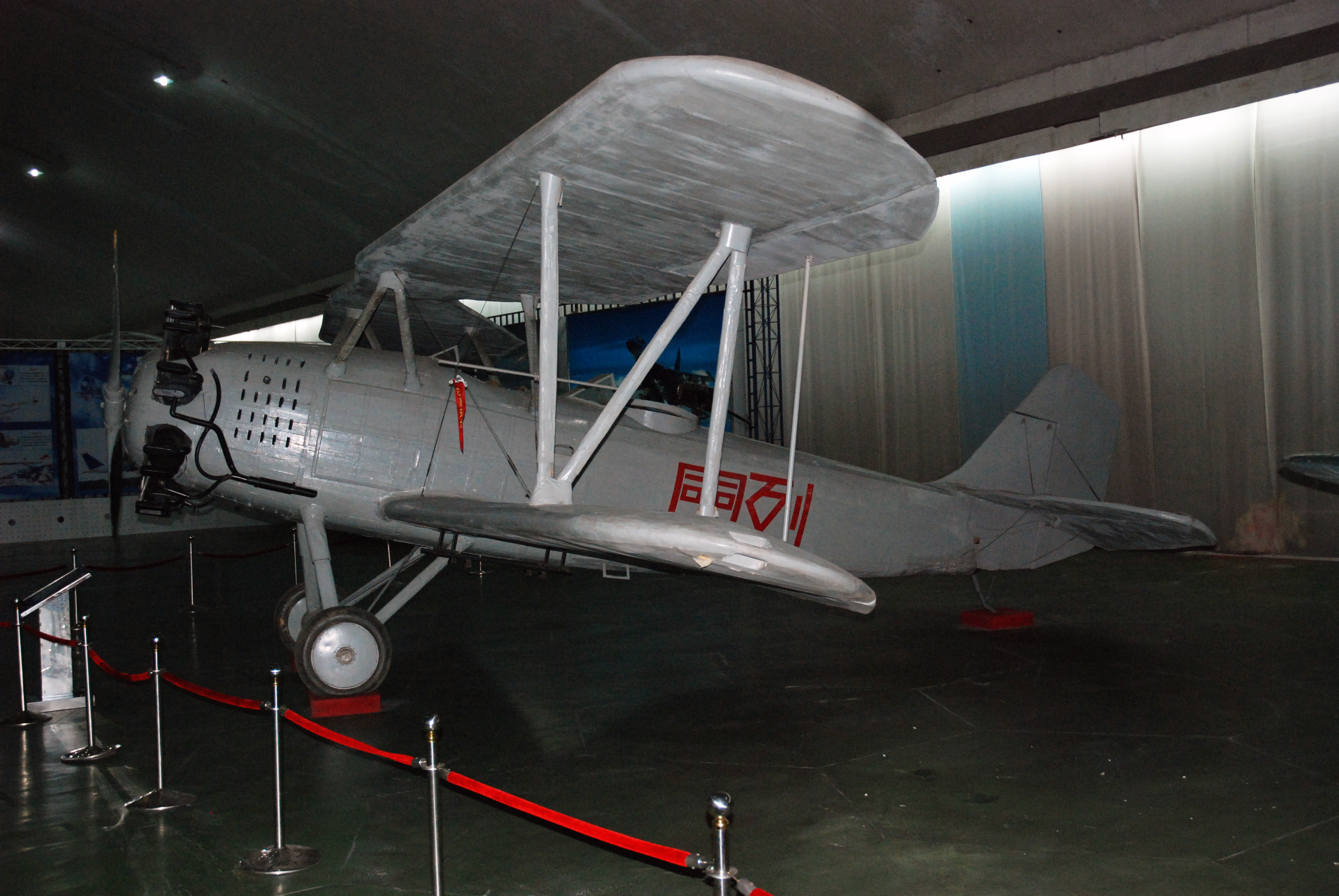 China Aircraft Museum,Sep 2008